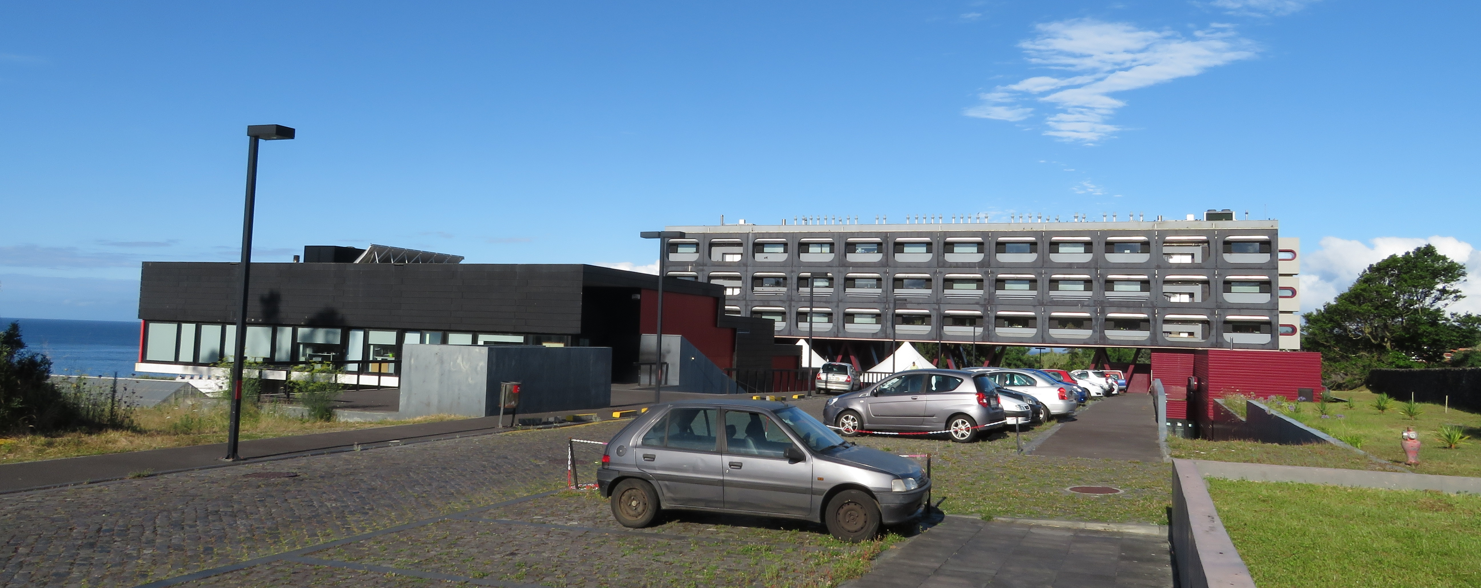 Campus in Angra do Heroismo, Universidade dos Açores, Terceira, Portugal